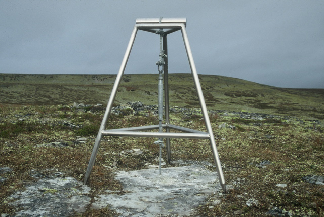 Perpetuum Immobile, a Land Art Project by Egil Martin Kurdøl